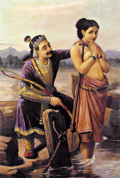 King Shantanu falling in love with Matsyagandhi (Satyavati)